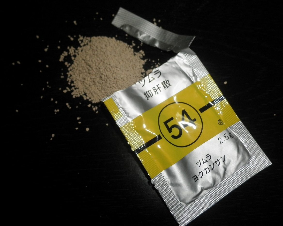 Chinese medicine whose name is yokukansan